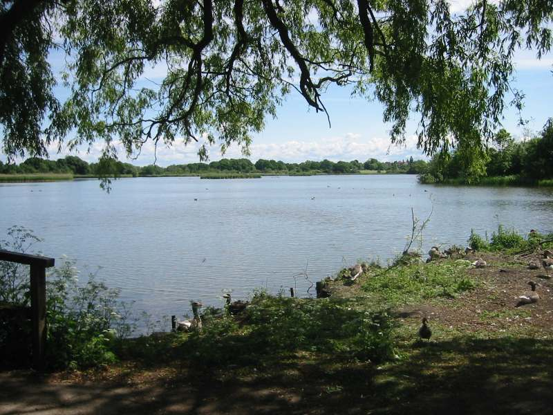 (c) 2005, Niels Elgaard Larsen Utterslev Mose.